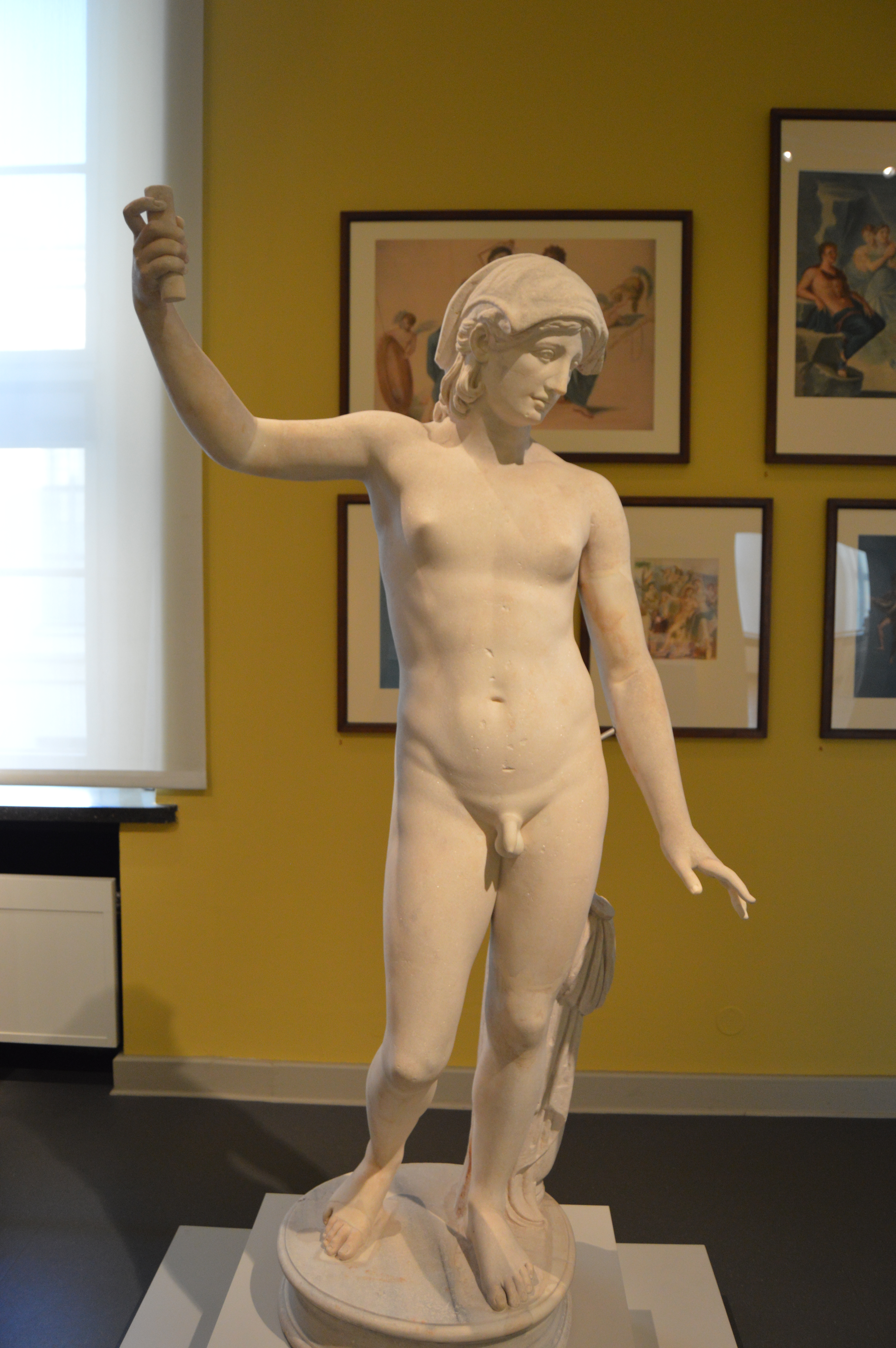 Statue of Hermaphroditus at the Altes Museum in Berlin.